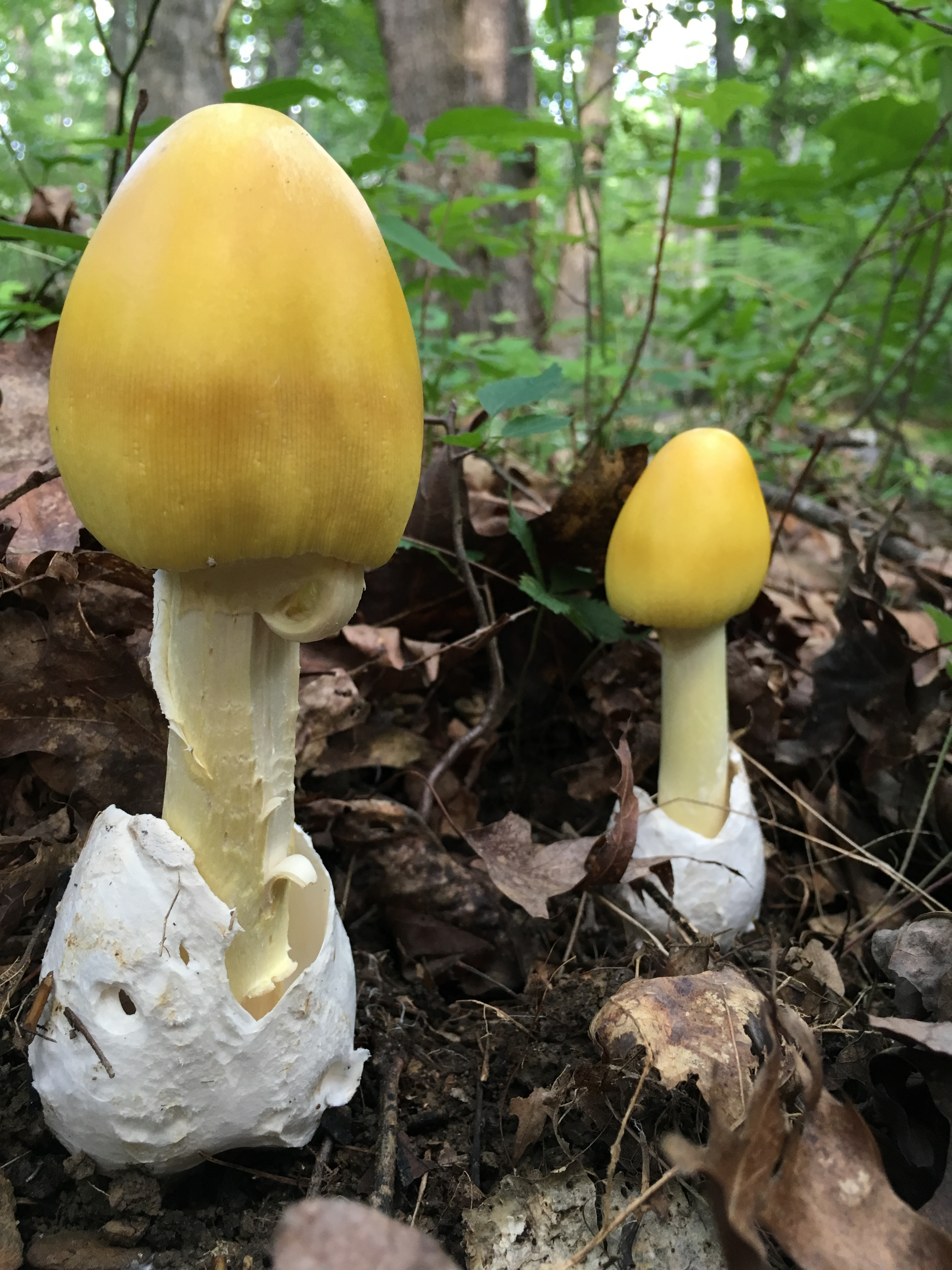 Amanita banningiana Tulloss nom. prov. Image location: Sherando Lake, Augusta Co., Virginia, USA Recognized by sight For more information about this, see the observation page at Mushroom Observer.